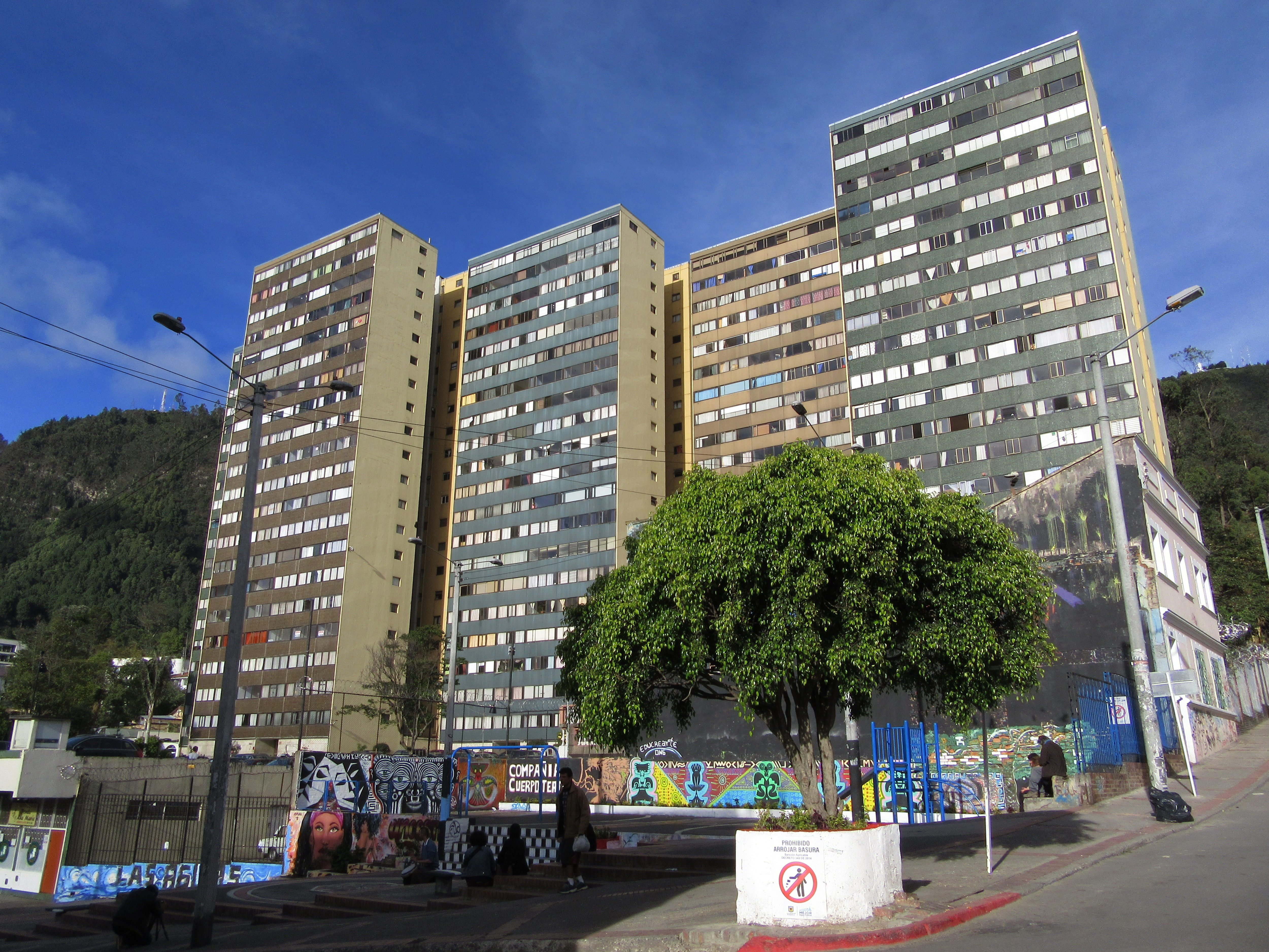 Bogotá